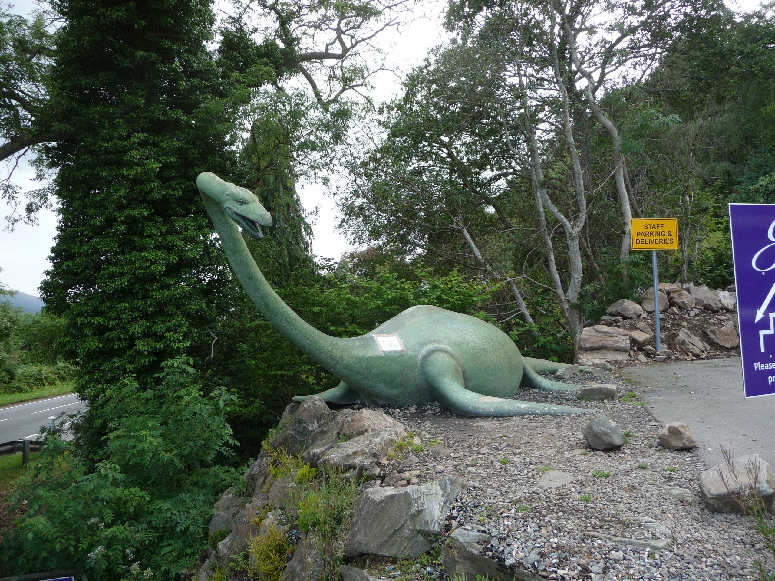 Drumnadrochit